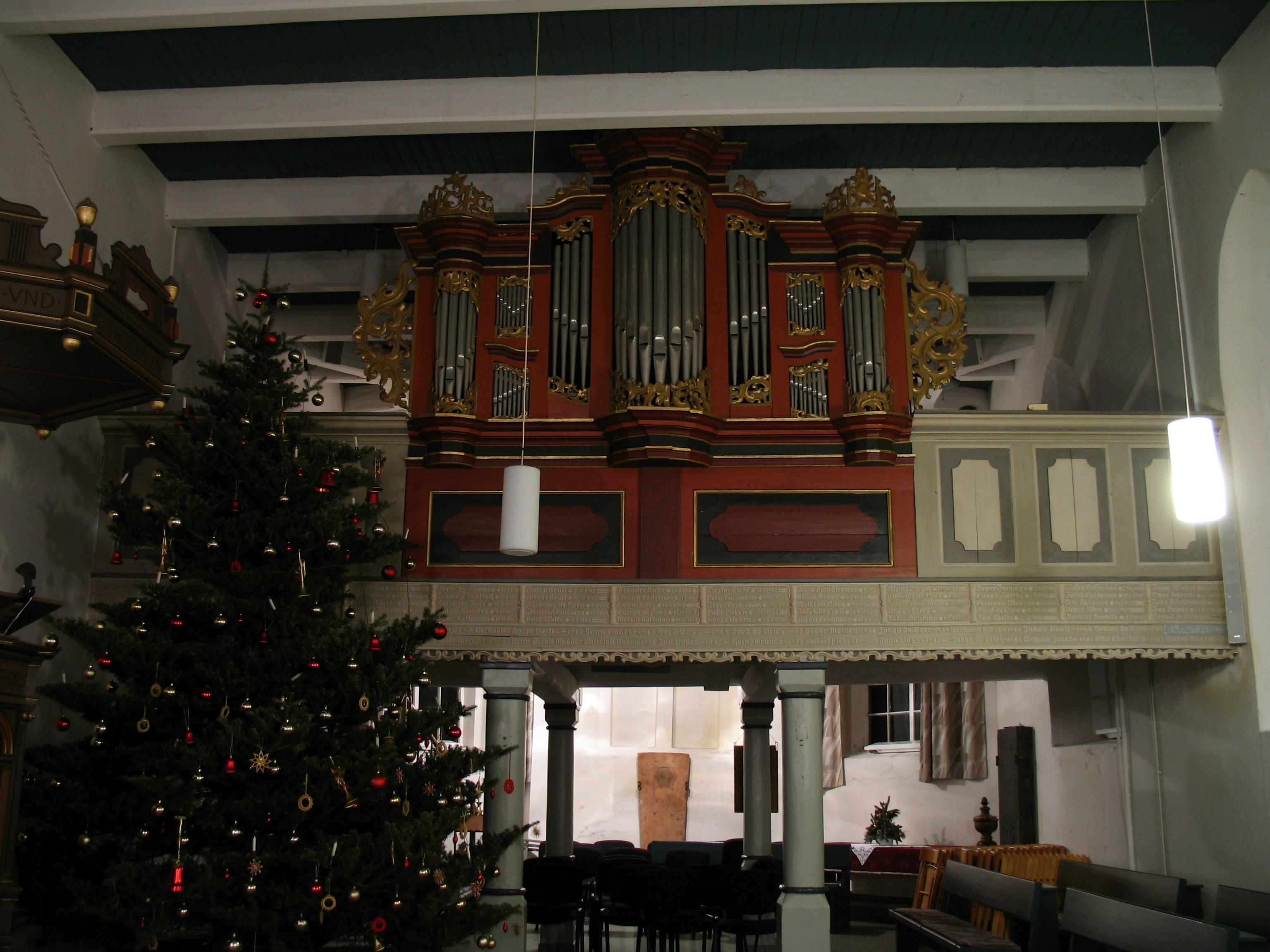 Organ in Simonswolde, East Frisia, Lower Saxony, Germany